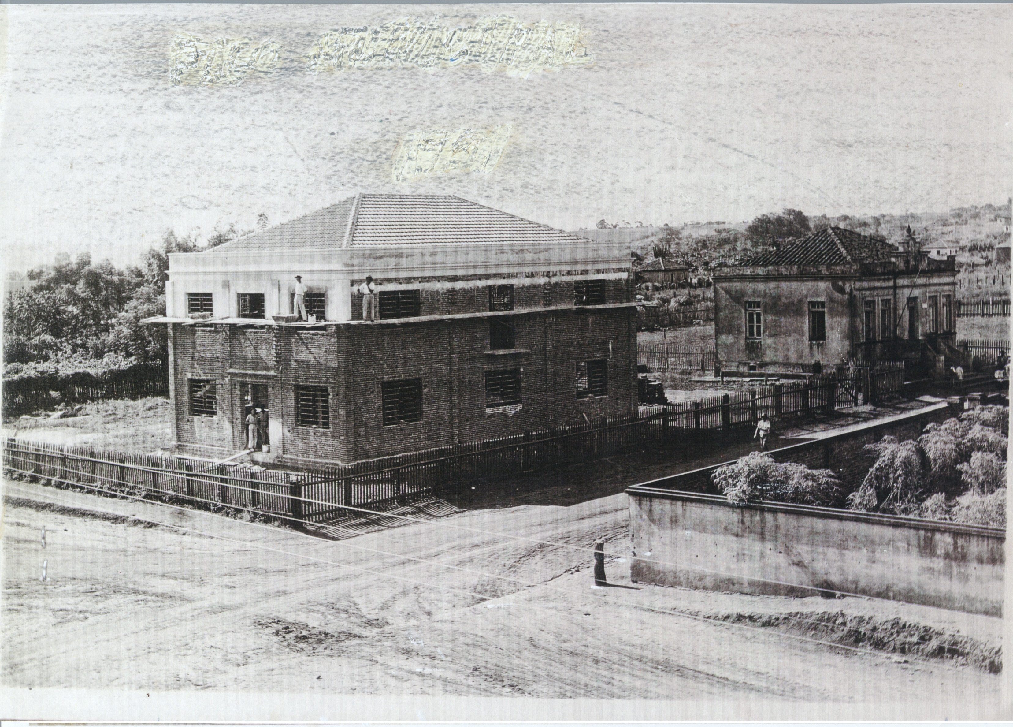 Construction of municipal government, in 1919.